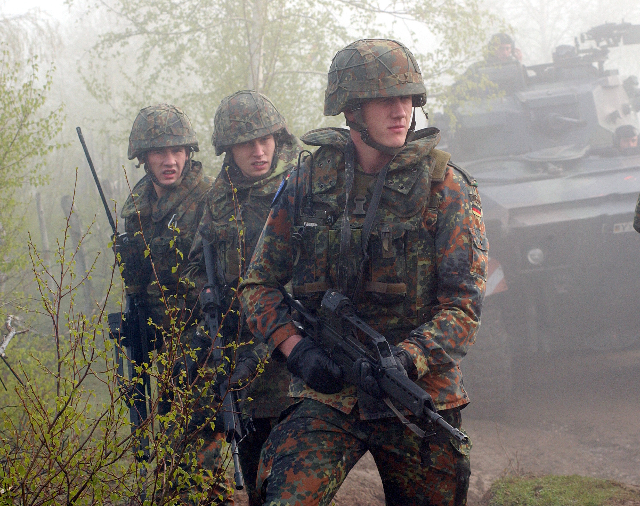 During exercise Joint Resolve 26, in Bosnia and Herzegovina (BiH), soldiers from the German Battle Group's 2nd Reinforced Infantry Company, armed with Heckler and Koch automatic assault rifles, seek to capture French soldiers playing the role of paramilitary extremists, near a paramilitary training camp in the town of Pazaric. (Released to Public)